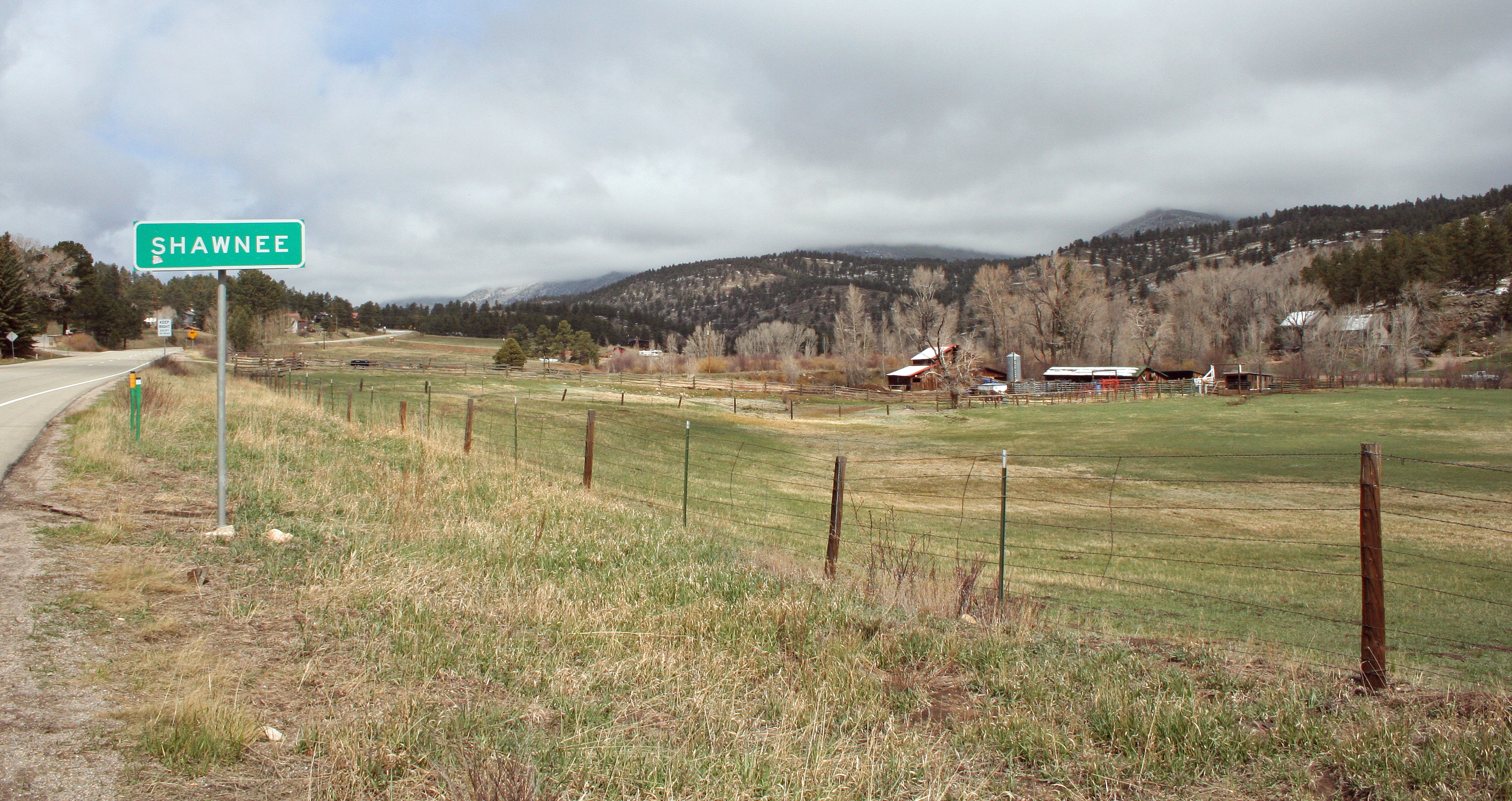 Shawnee, Colorado, an unincorporated village in Park County, Colorado.